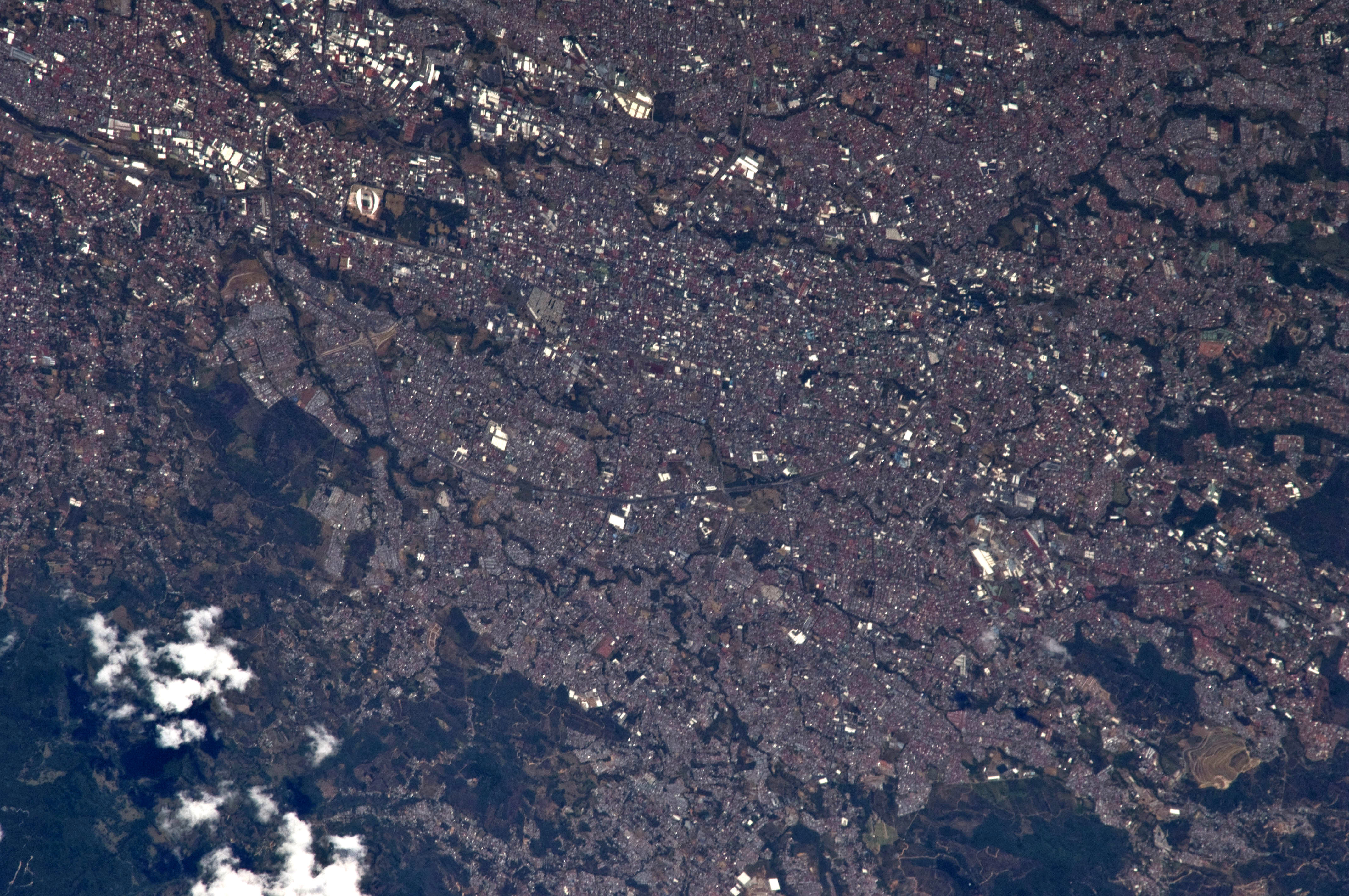 The city of San José, Costa Rica photographed by the Expedition 27 crew on board the International Space Station. Showing La Sabana Metropolitan Park in lower (southern) section.